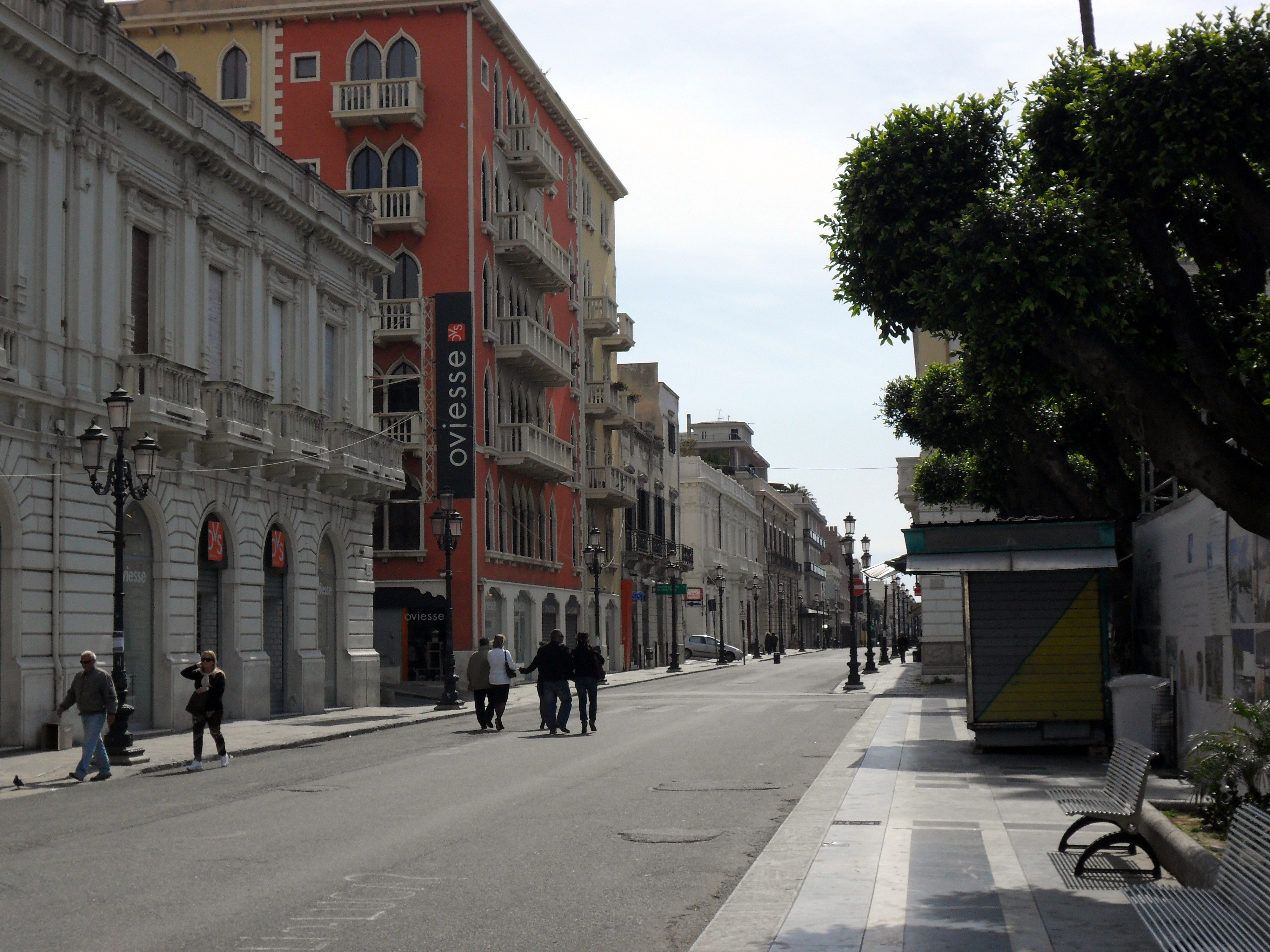 Corso Garibaldi, important street of the city